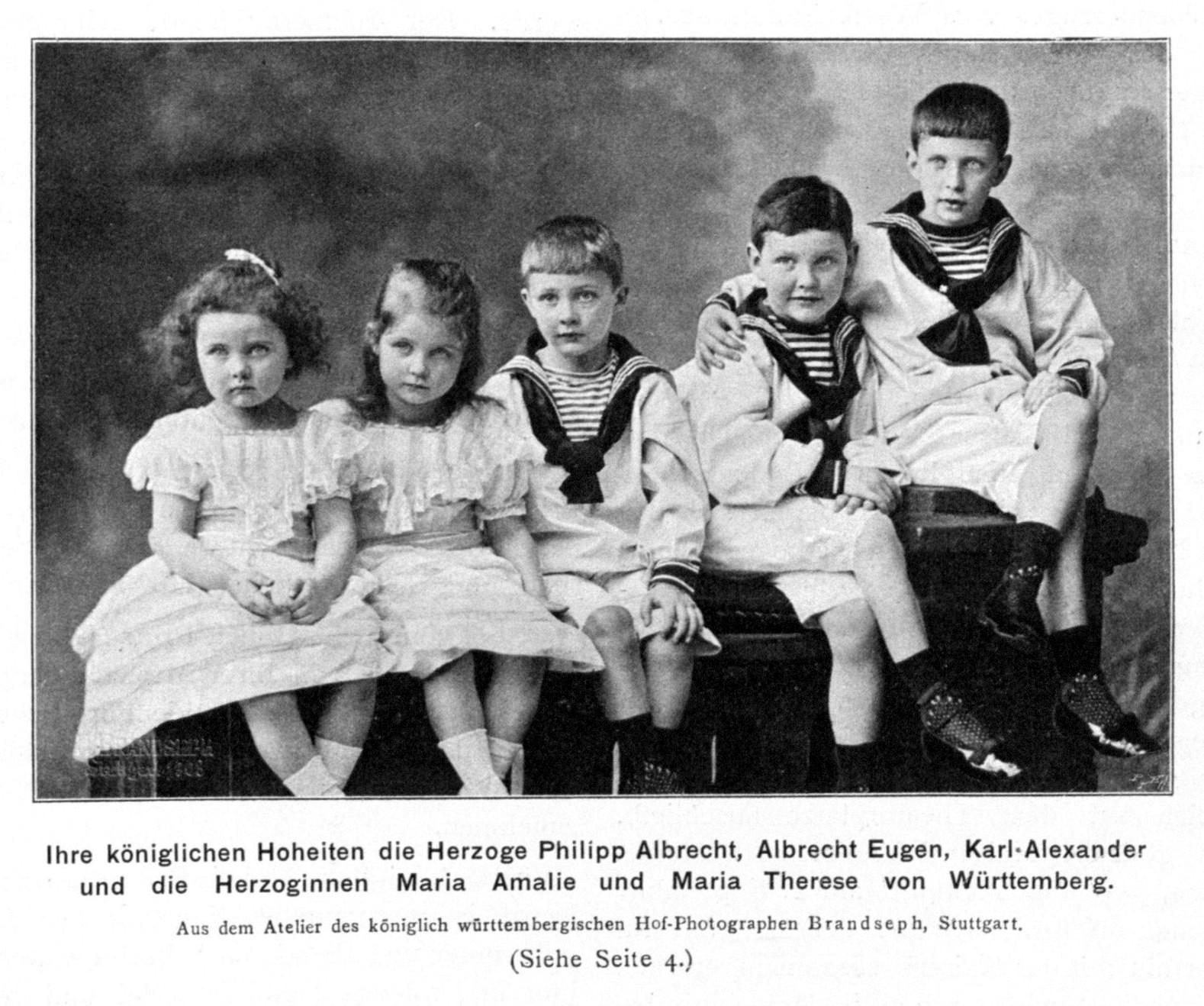 Group portrait of children from the (deposed) royal Württenberg dynasty, right to left: Philipp Albrecht (1893-1975), Albrecht Eugen (1895-1954), Carl Alexander (1896-1964), Maria Amalia (1897–1923) and Maria Theresa (1898–1928).